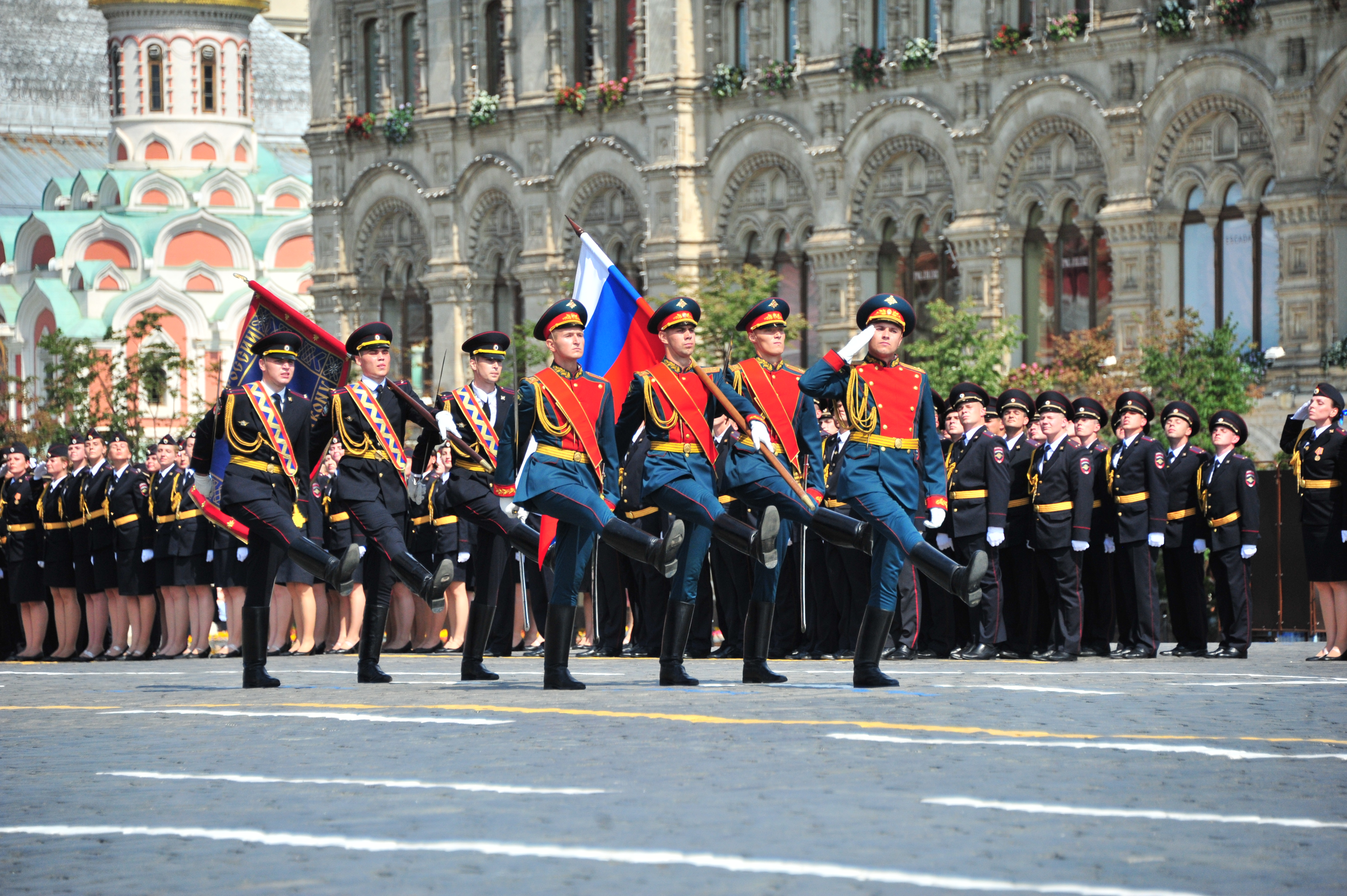 Торжественный выпуск на Красной площади